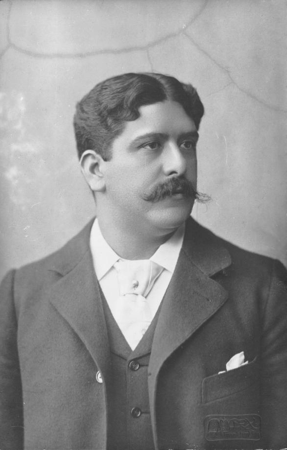 Italian and German music teacher Lazzaro Uzielli (1861—1943).